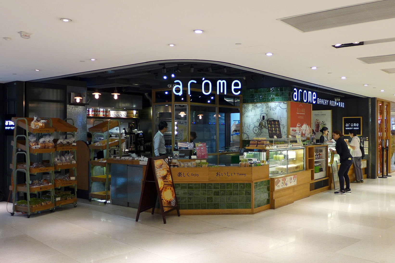 Arome Bakery in Lab Concept